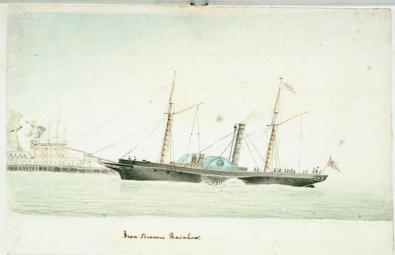 Iron Steamer Rainboworiginal art: drawing